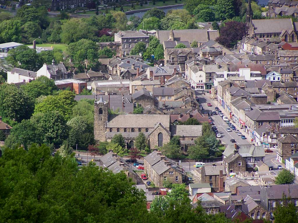 An overview of Otley, West Yorkshire. Showing All Saints Church. Taken on the 1st of June 2006.